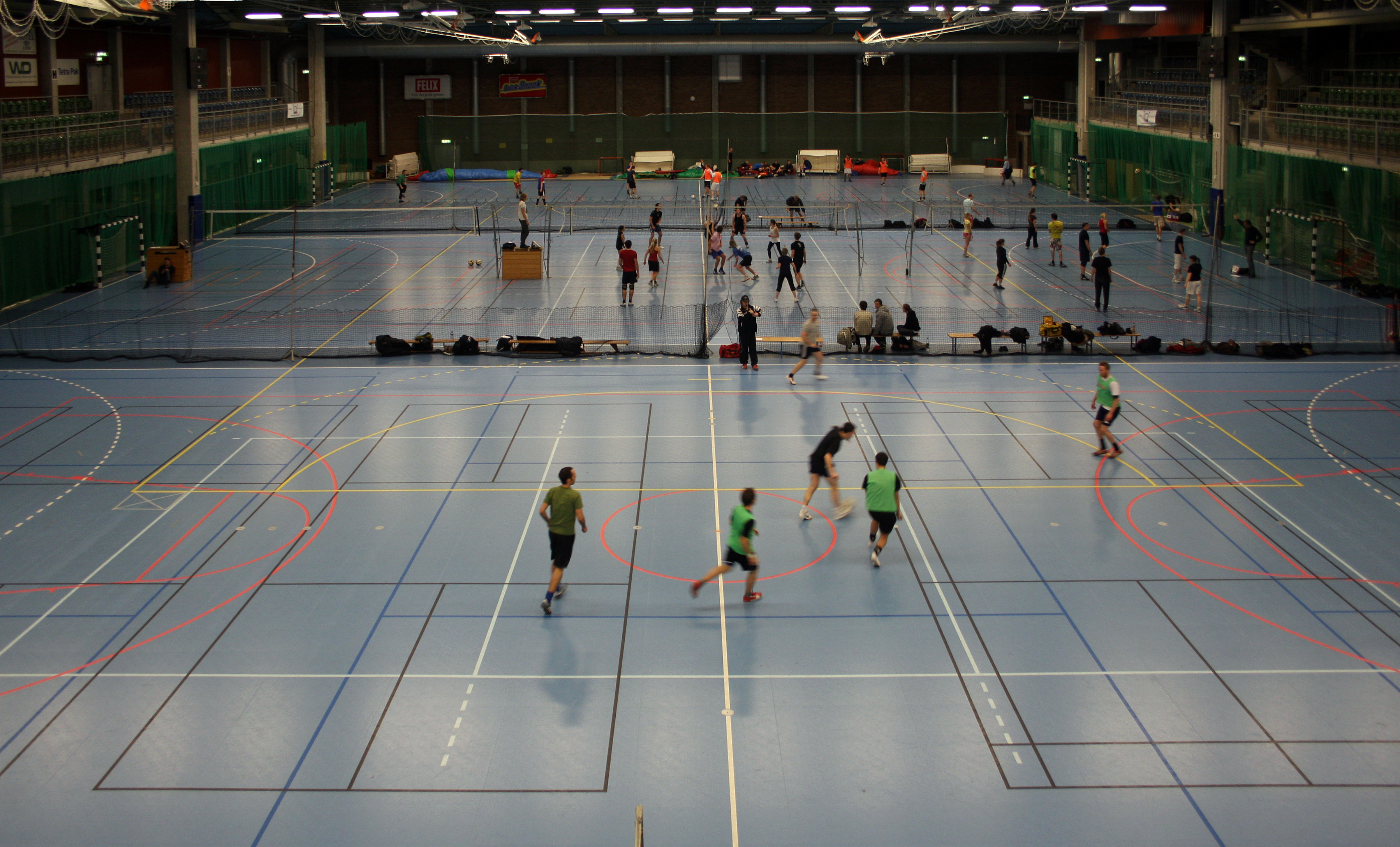 Recreational football and volleyball played in Victoriastadion sports venue in Lund, Sweden, organized by Lugi motion.